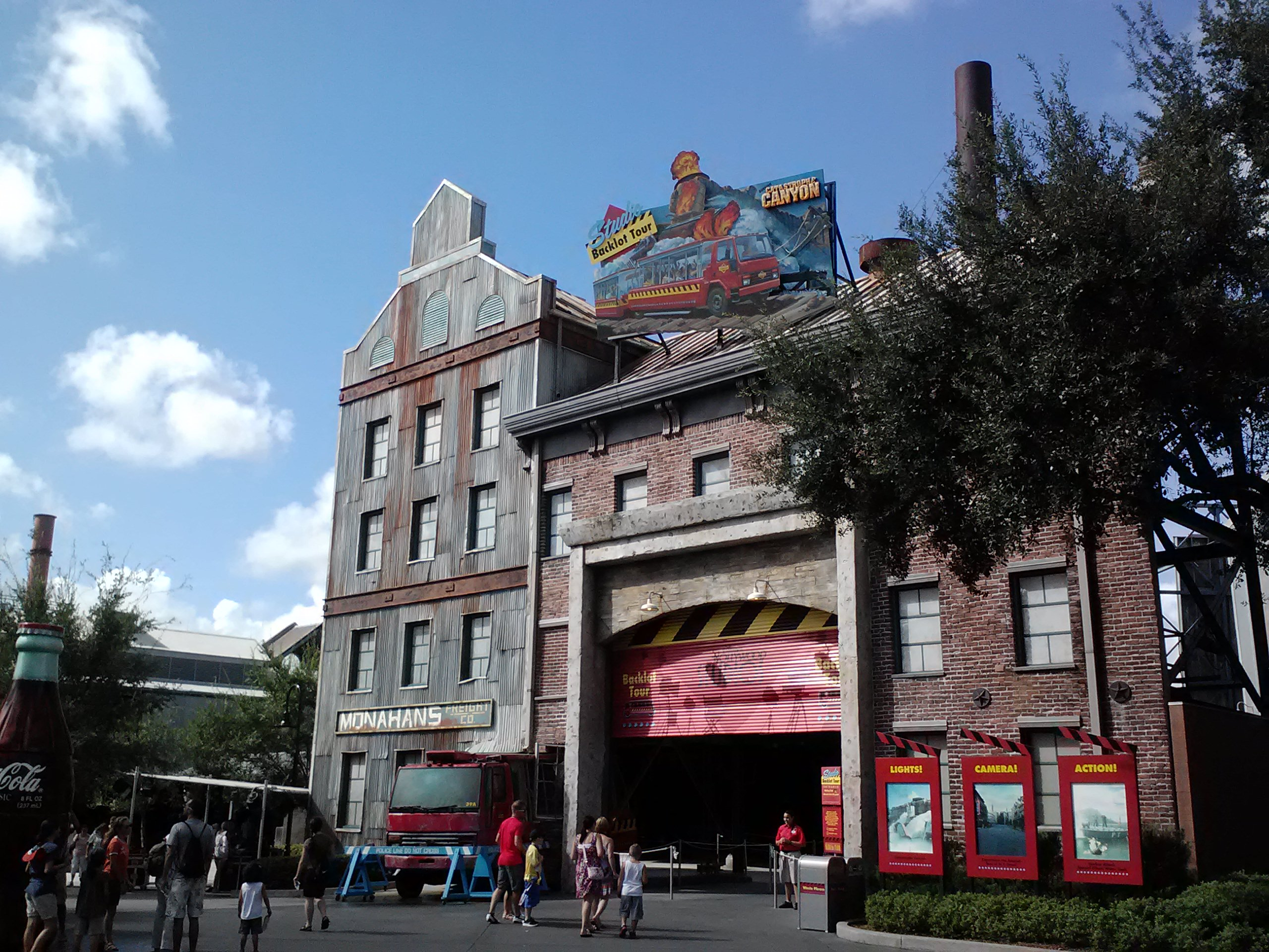 The marquee and entrance to the Studio Backlot Tour attraction at Disney's Hollywood Studios.